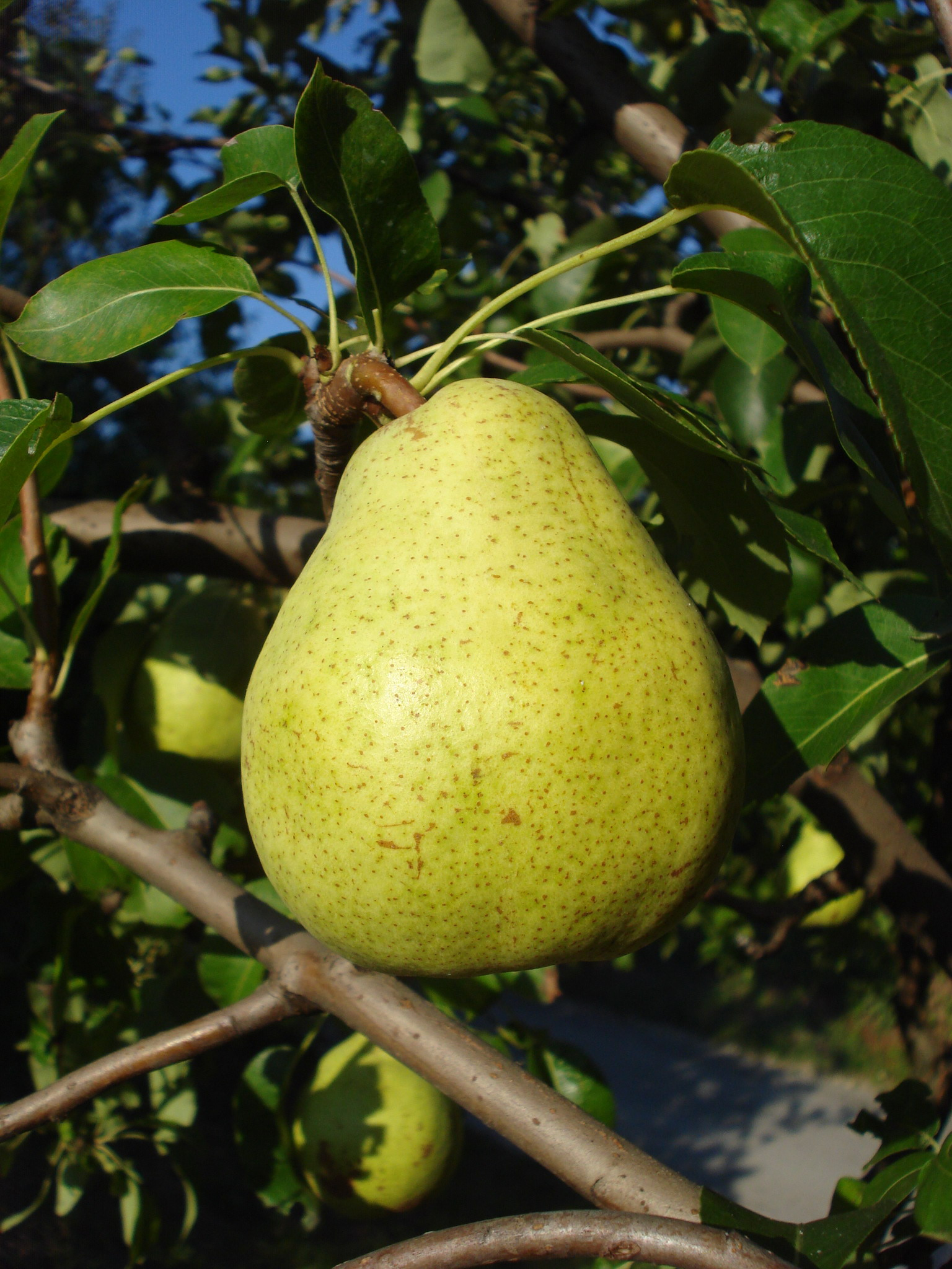 "Doyenne du Comice" pear, late ripening variety, grown in Medjimurje County, northern Croatia